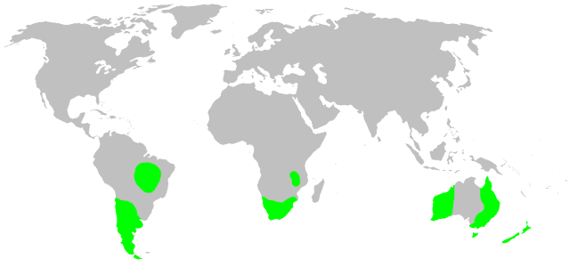 Orsolobidae habitat distribution, drawn after Platnick: World Spider Catalog 7.0. This is not a precise rendering of the distribution! If you have better information, please replace this map, or send me the info, and i will redraw it.